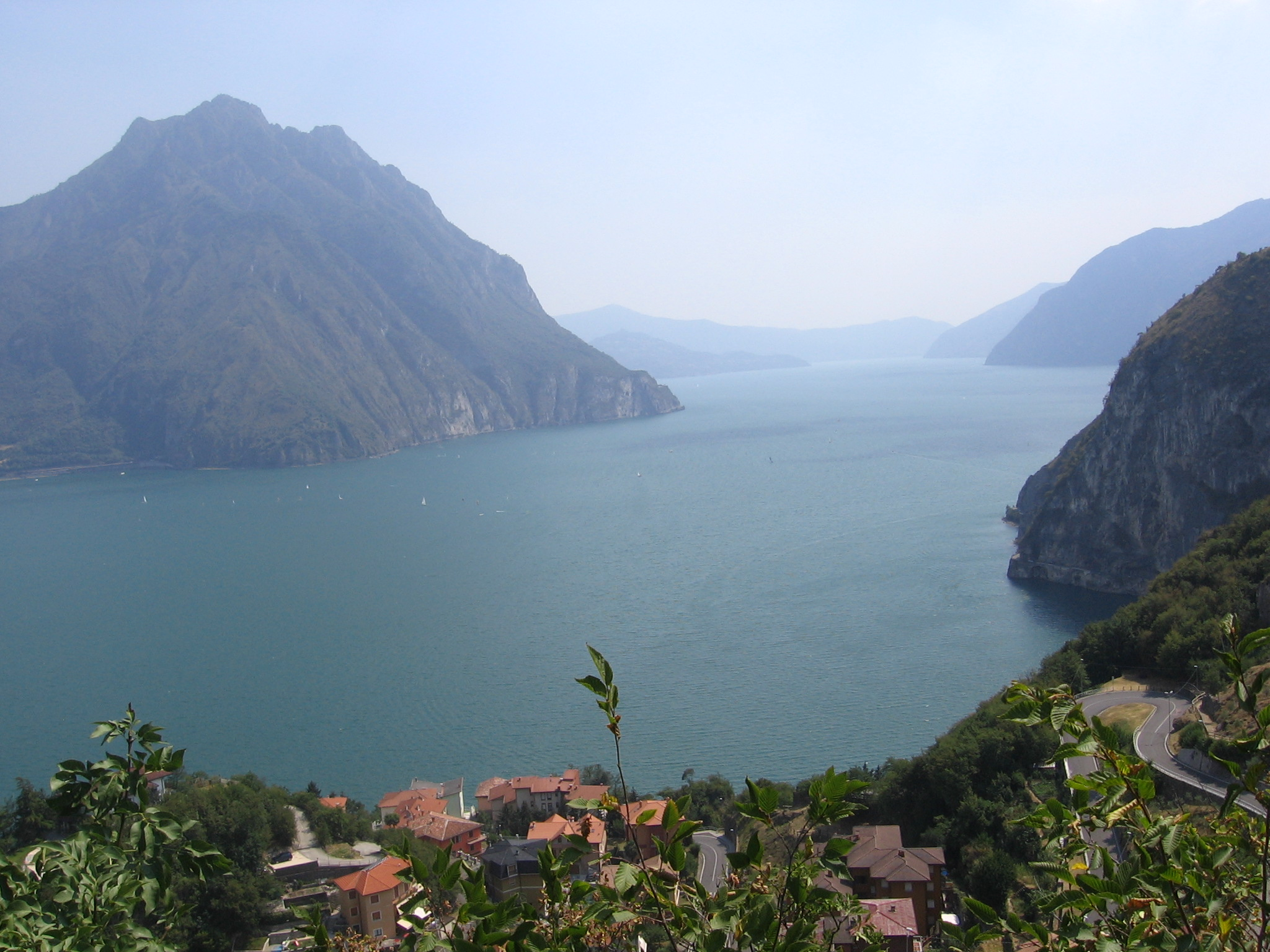 Castro, Bergamo, Italy